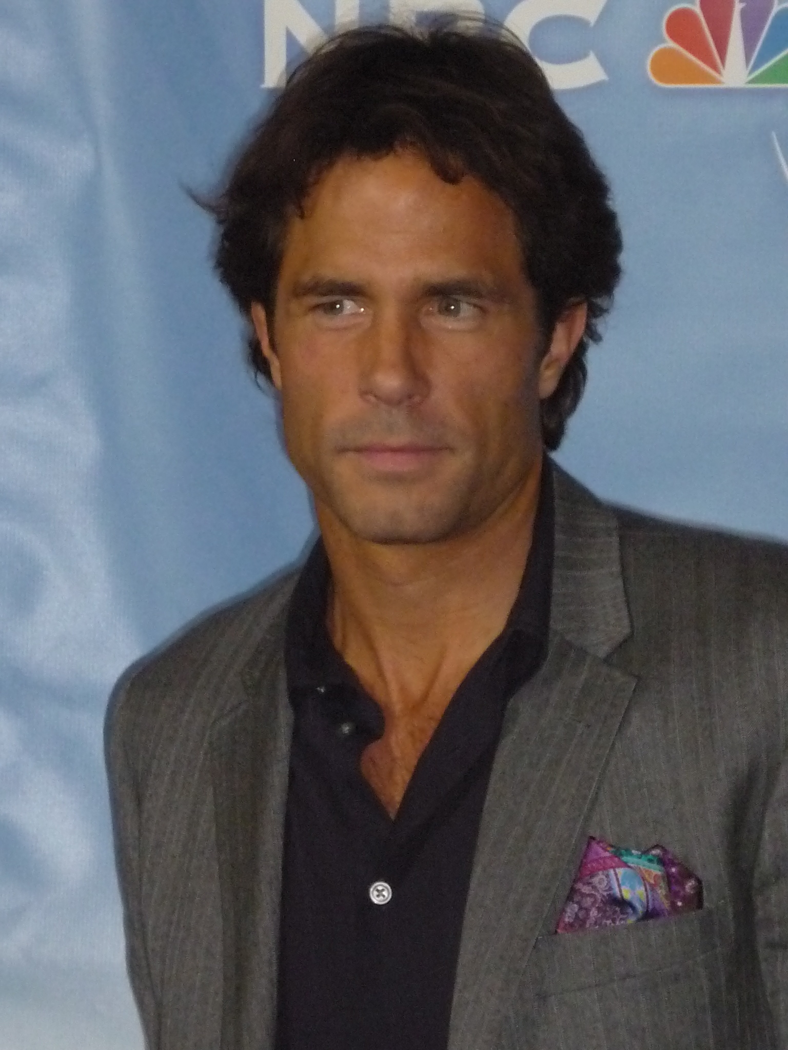 Shawn Christian in February 2008